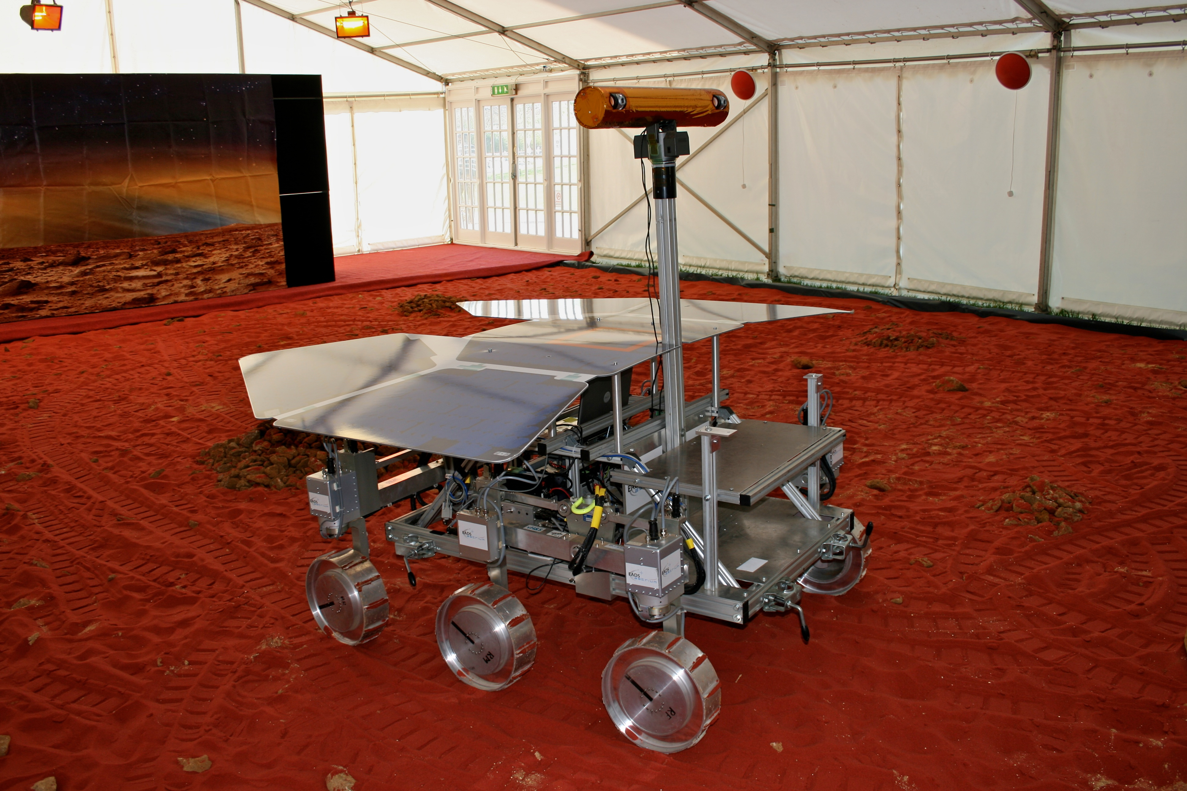 An ExoMars prototype rover at the Royal Astronomical Society National Annual Meeting 2009 in Hatfield, England.